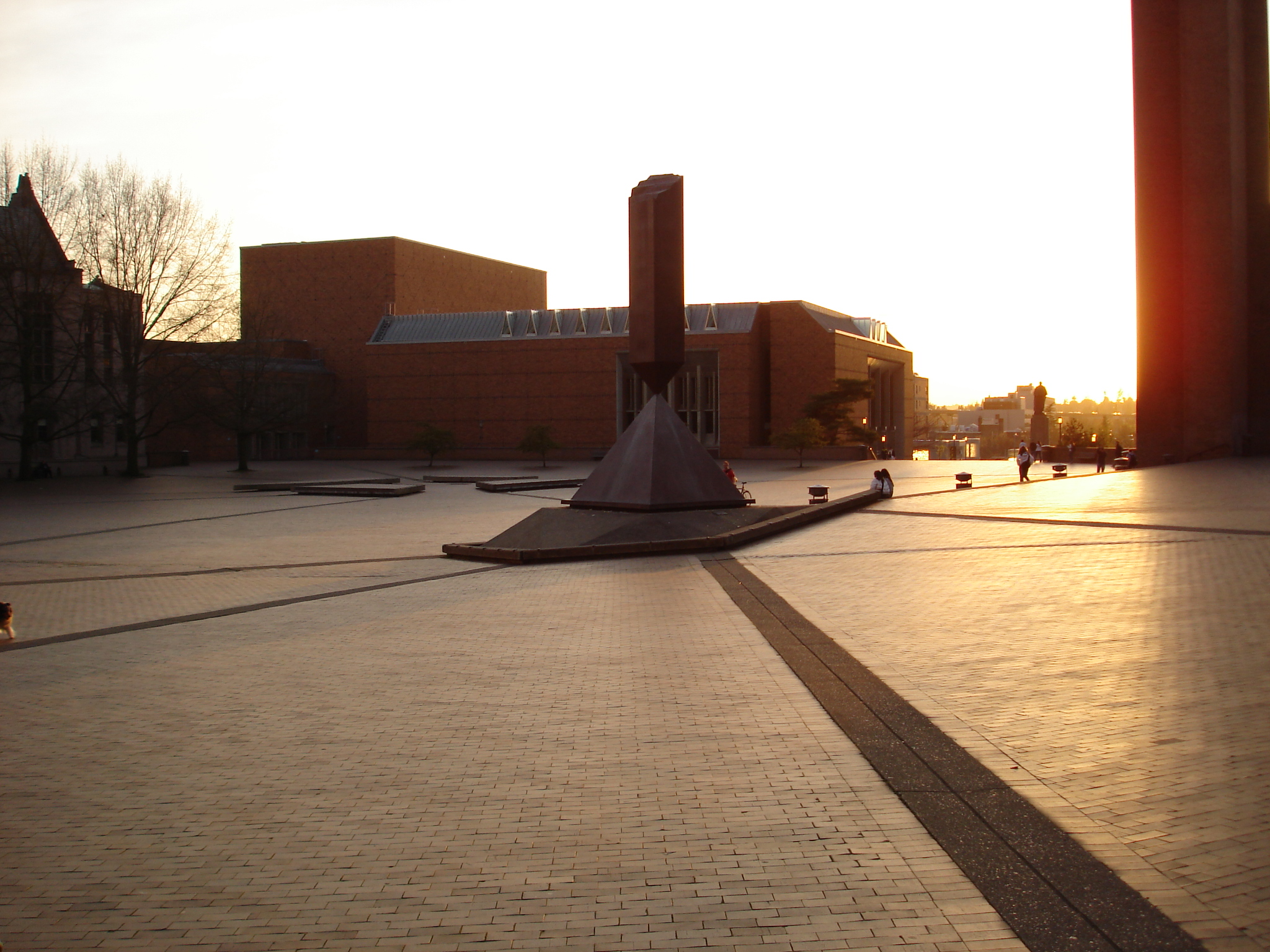 Despite the title of this file, this is Red Square, not The Quad[rangle]. Meany Hall in background.